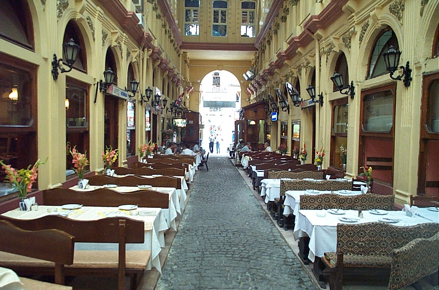 Çiçek passage, Beyoglu, Istanbul